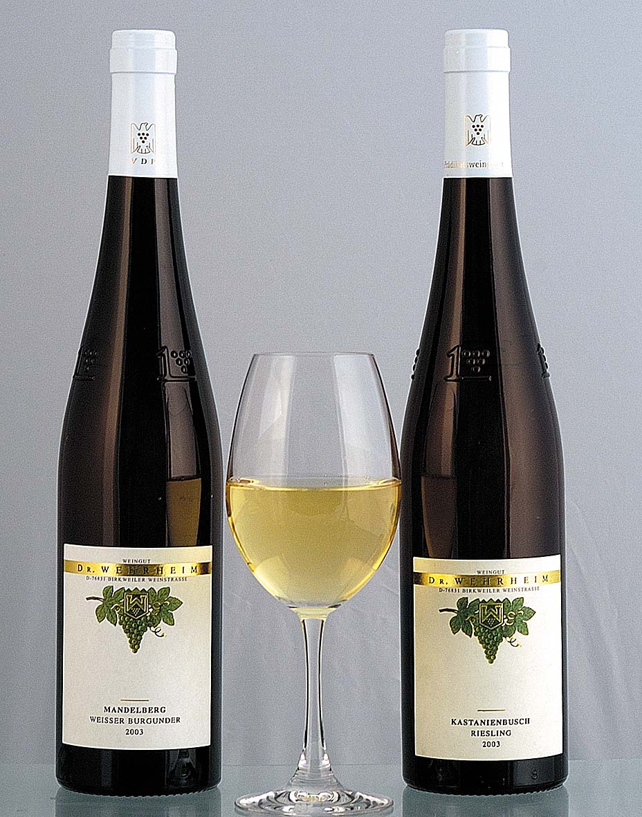 Closeup of winebottles, dr.Wehrheim